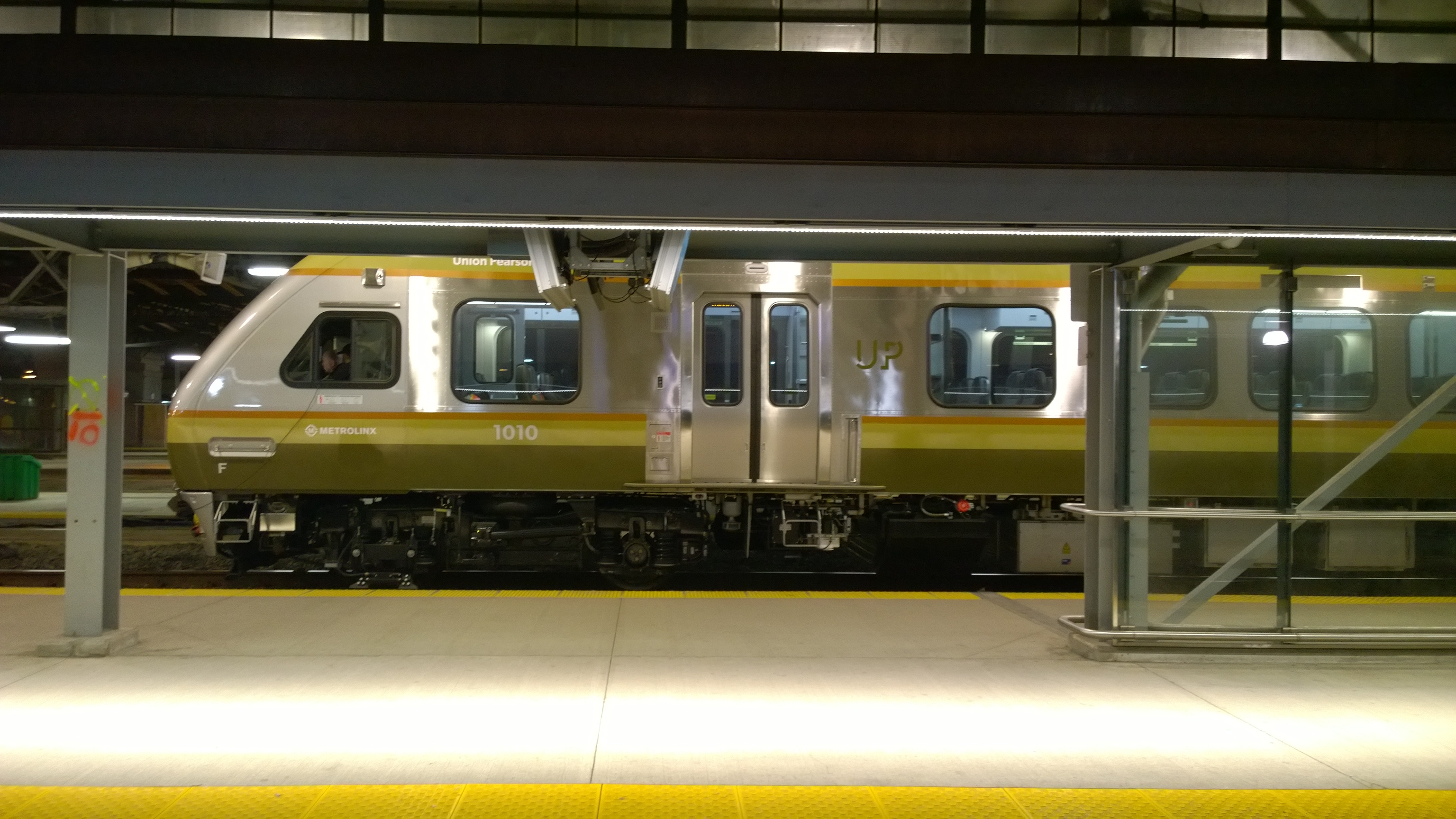 Photograph of one of the Metrolinx Union-Pearson Express trains sitting by platform 24 of Toronto Union Station.